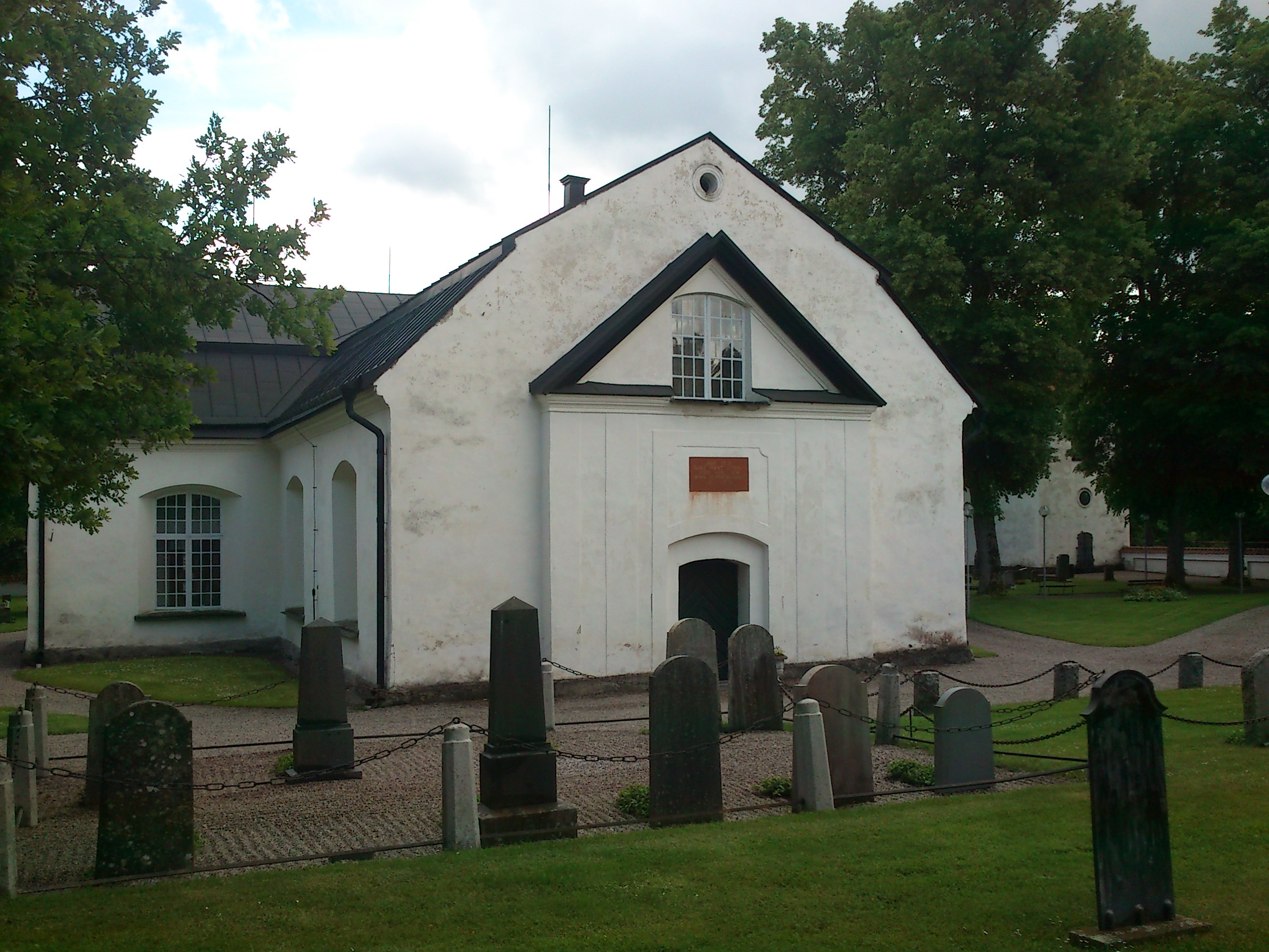 Western entrance to Östra Vingåker's church